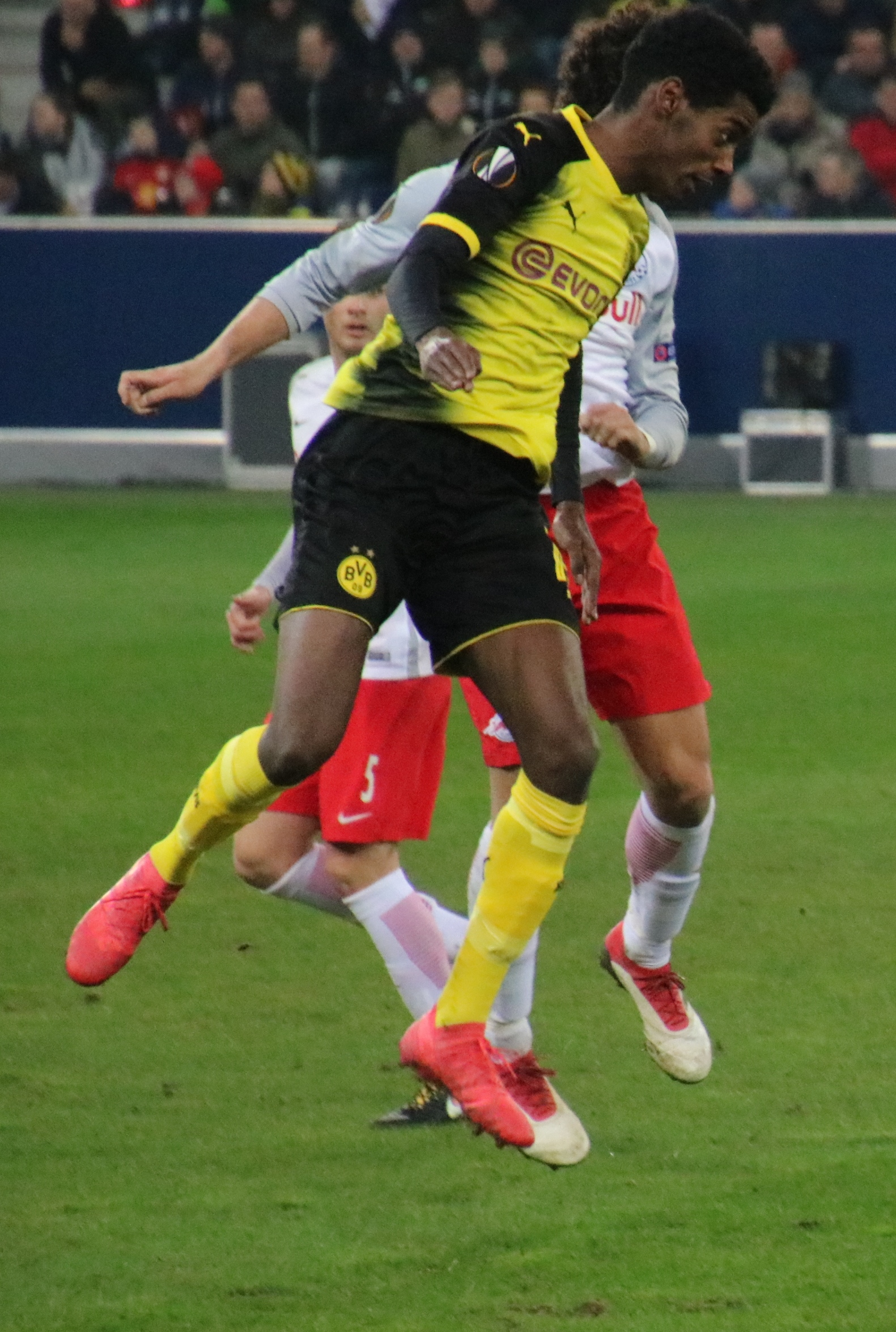 UEFA Euro League Achtelfinale Rückspiel